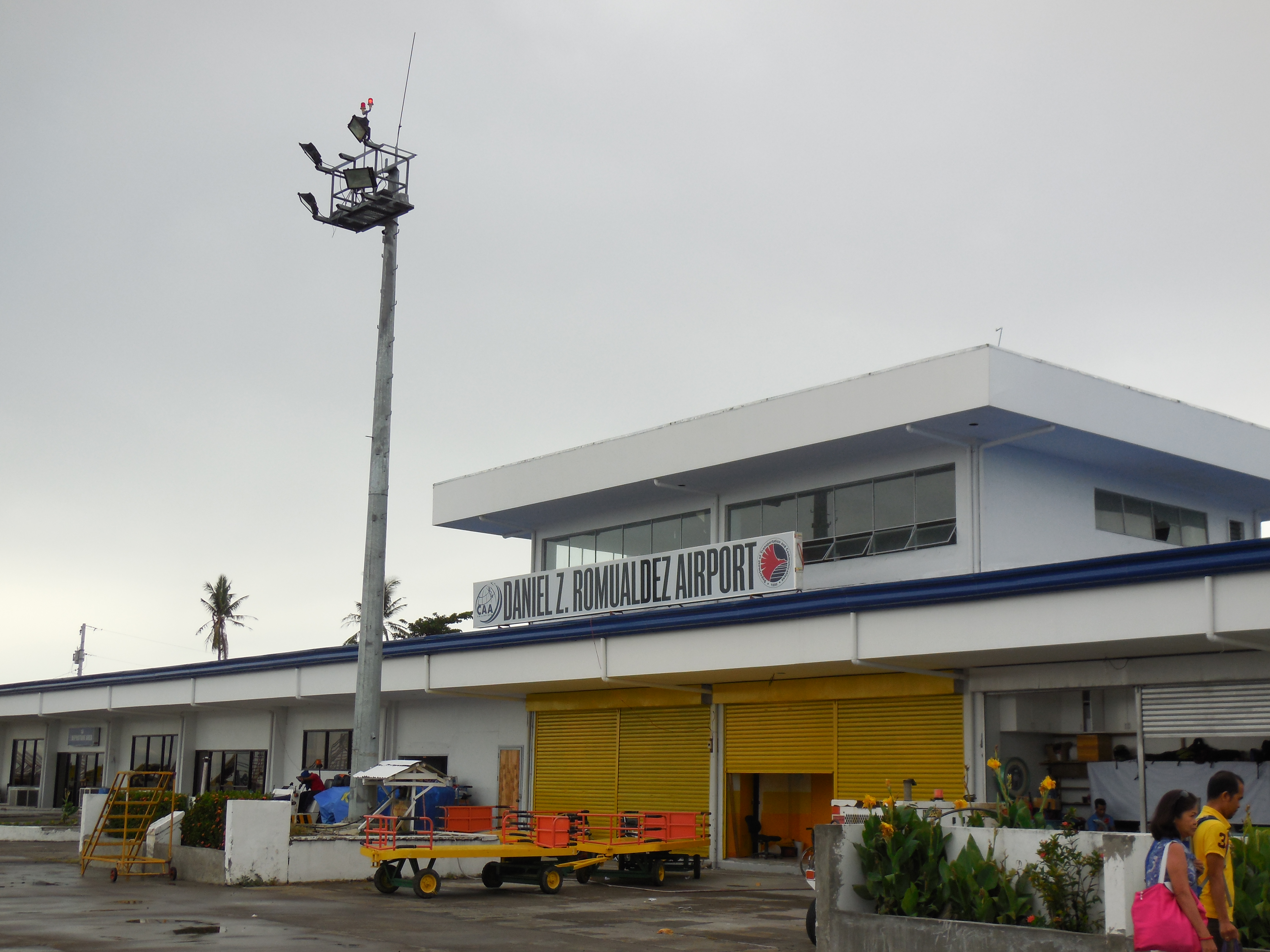 Photo shows the main terminal of the Daniel Z. Romualdez Airport from tarmac.